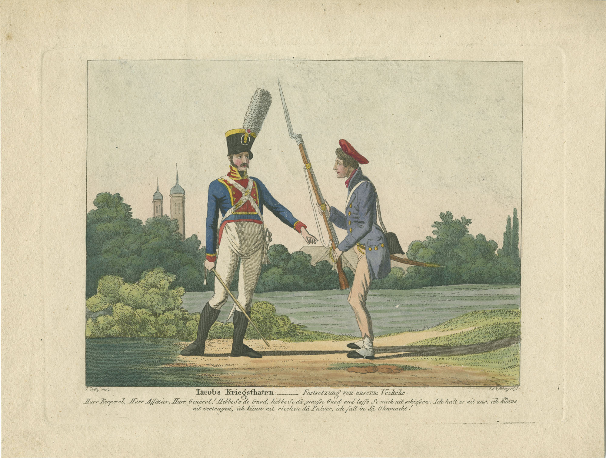 Hand-colored etching of a scene from Karl Borromäus Alexander Sessa's satirical play "Unser Verkehr" (The Company We Keep). Etching after Johann Michael Voltz. In German, the text reads : "Harr Kerperol, Harr Affezier, Harr Generol! Hebbe Se de Gnod, hebbe Se dä grausse Gnod und lasse Se mich nit schiessen. Ich halt es nit aus, ich künns nit vertragen, ich künn nit riechen dä Pulver, ich fall in dä Ohnmacht!" In English, the text reads : "Sir Corporal, Sir Officer, Sir General! Have mercy, have great mercy and don't leave me under fire. I can't stand it any more, I can't endure it, I can't smell the gun powder any longer, I am going to faint!" Collection: William A. Rosenthall Judaica Collection - Prints and Photographs Contributing Institution: College of Charleston Libraries Johann Michael Voltz (1784–1858) Alternative names j. von voltz; Johann Michael Volz; j. m. Voltz; johann michael volk; johann michael voltz; j. m. voltzDescriptionGerman painter and caricaturistDate of birth/death 16 October 1784 17 April 1858 Location of birth/death Nördlingen NördlingenAuthority control : Q63457 VIAF: 40157081 ISNI: 0000 0000 6676 7651 ULAN: 500031838 LCCN: no2007051201 Open Library: OL6376005A WorldCat creator QS:P170,Q63457